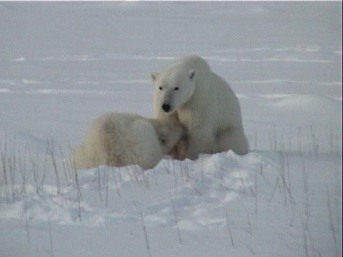 Polar bear, Ursus maritimus is nursing a cub Churchill. The image is a frame from the video I took.